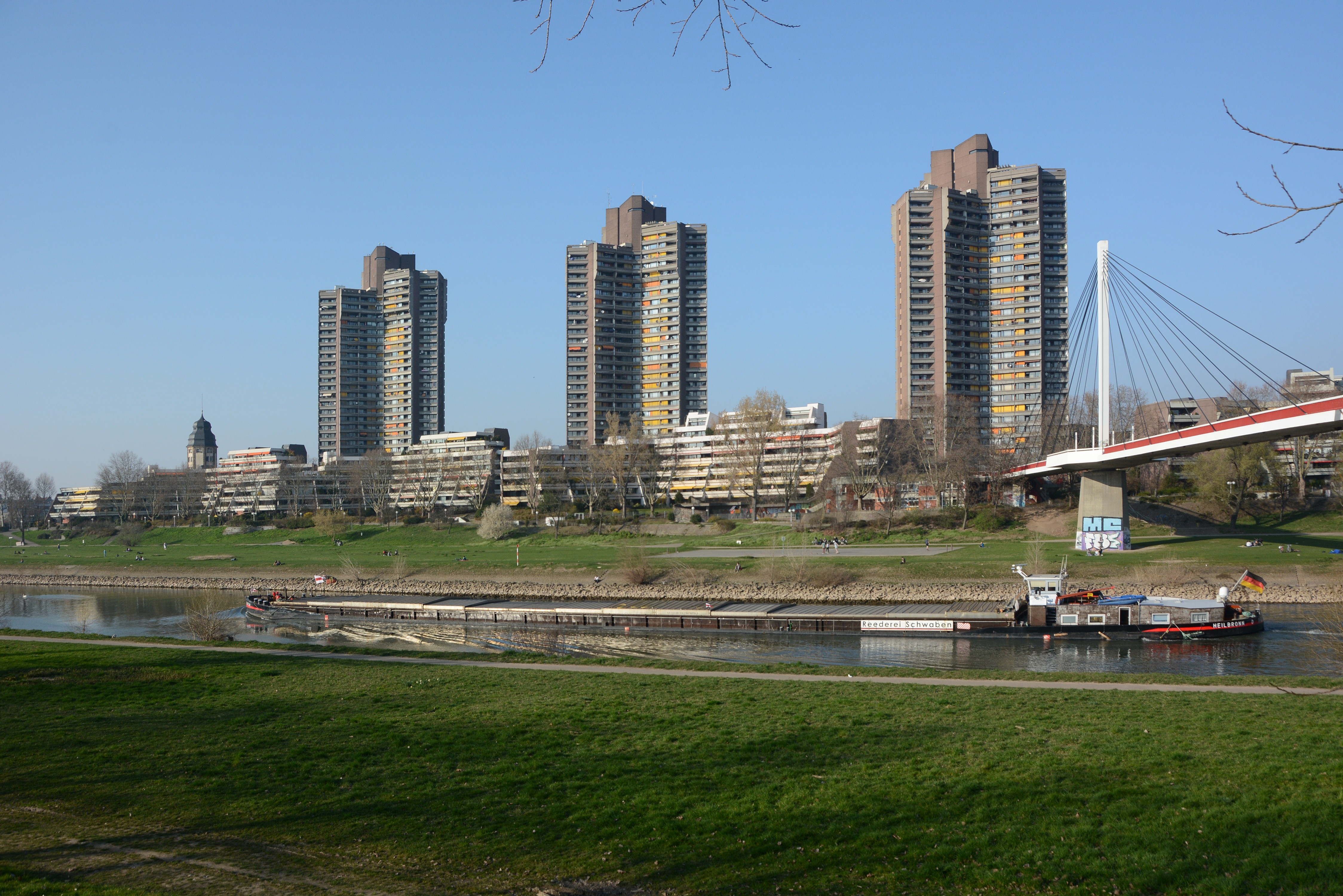 Buildings on the north banks of the river Neckar, Mannheim, Germany